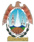 Coat of Arms of Villa Guerrero, Jalisco